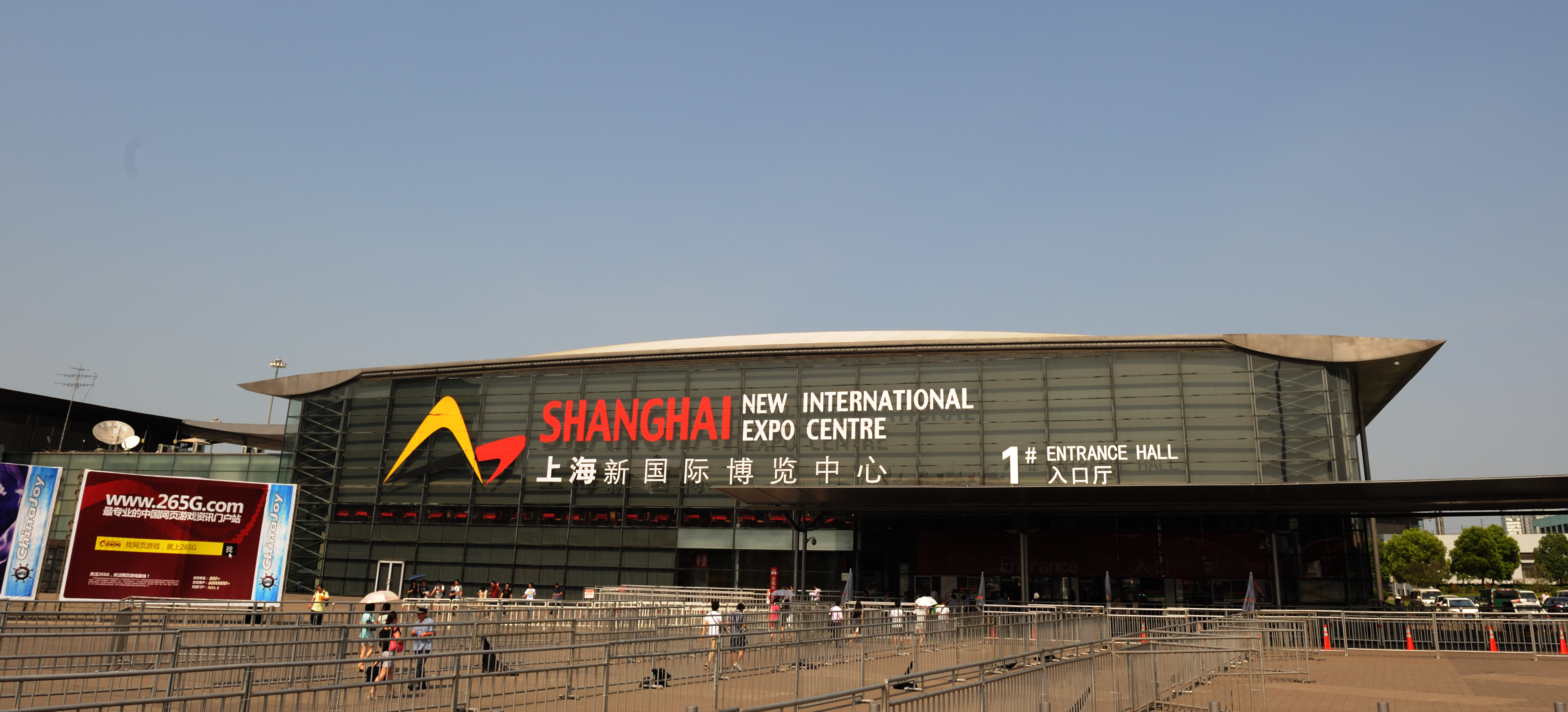 shanghai new international expo centre